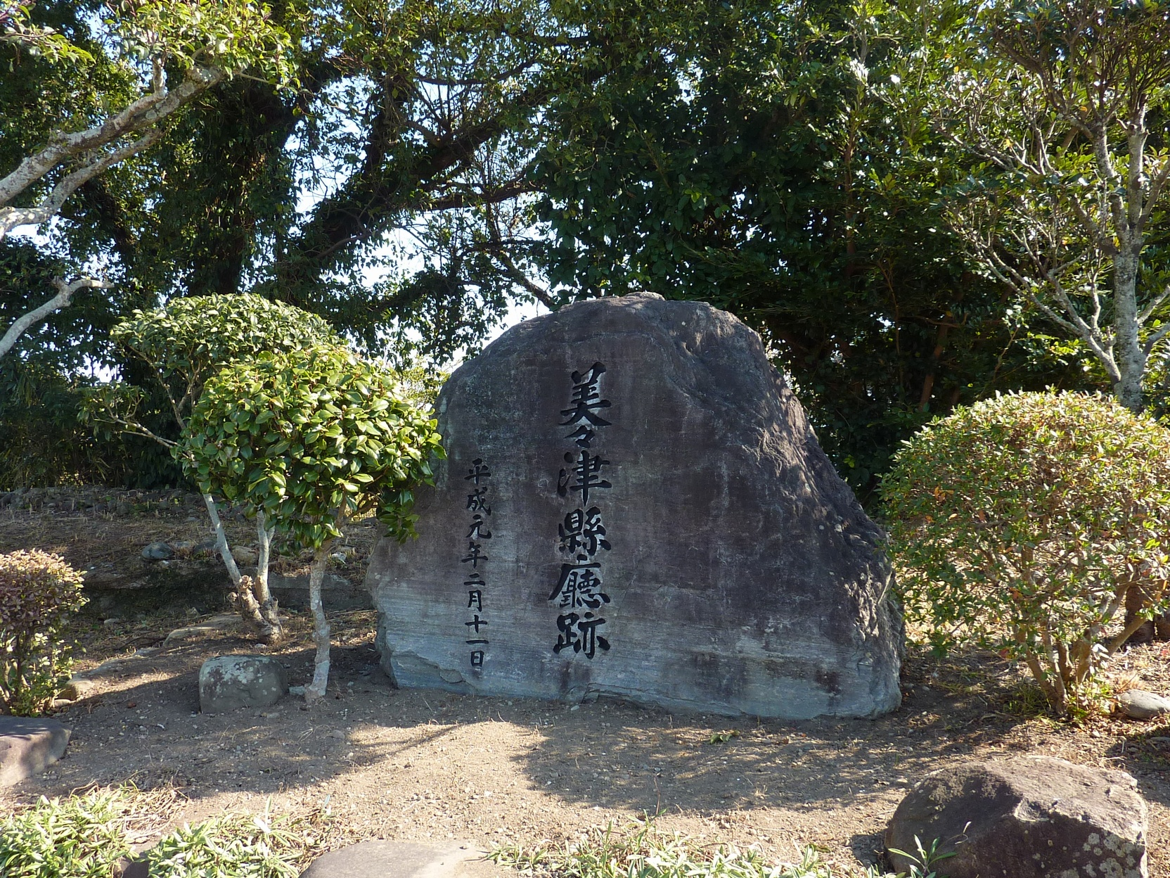 The Site of Mimitsu Prefectural Office (1872). Present Hyuga City Office Mimitsu Branch (Miyazaki Prefecture, Japan).